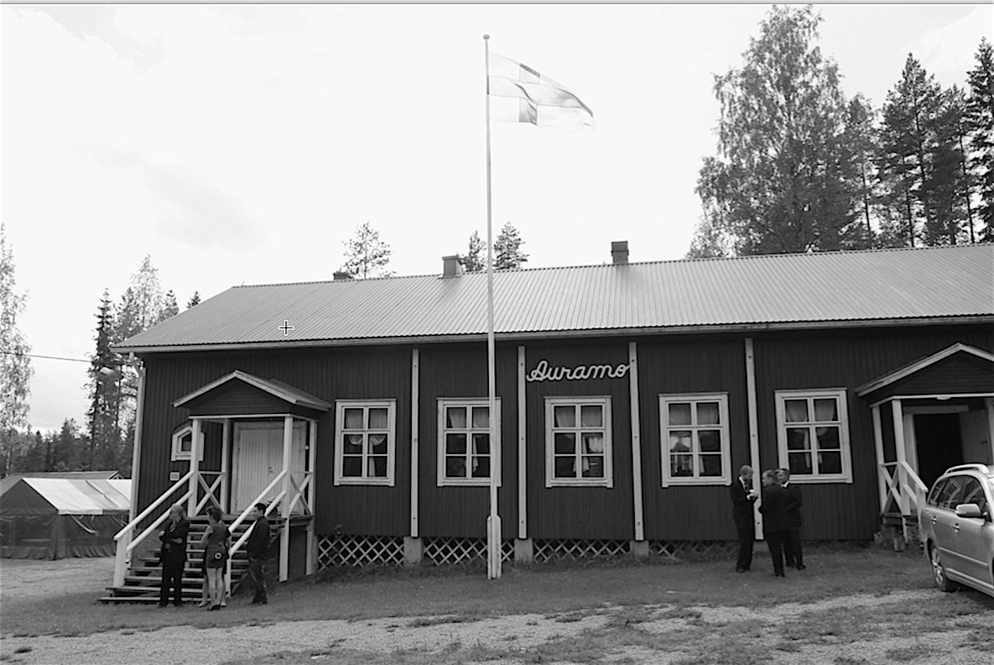 The village house Auramo, Aurejärvi Parkano